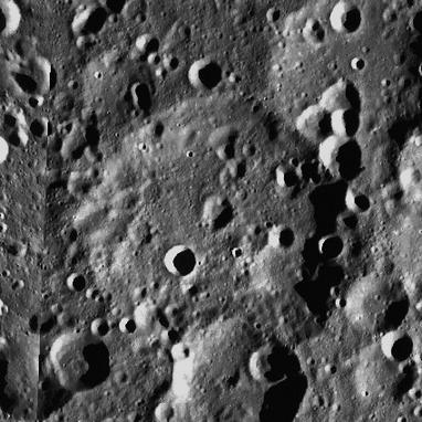 LROC image